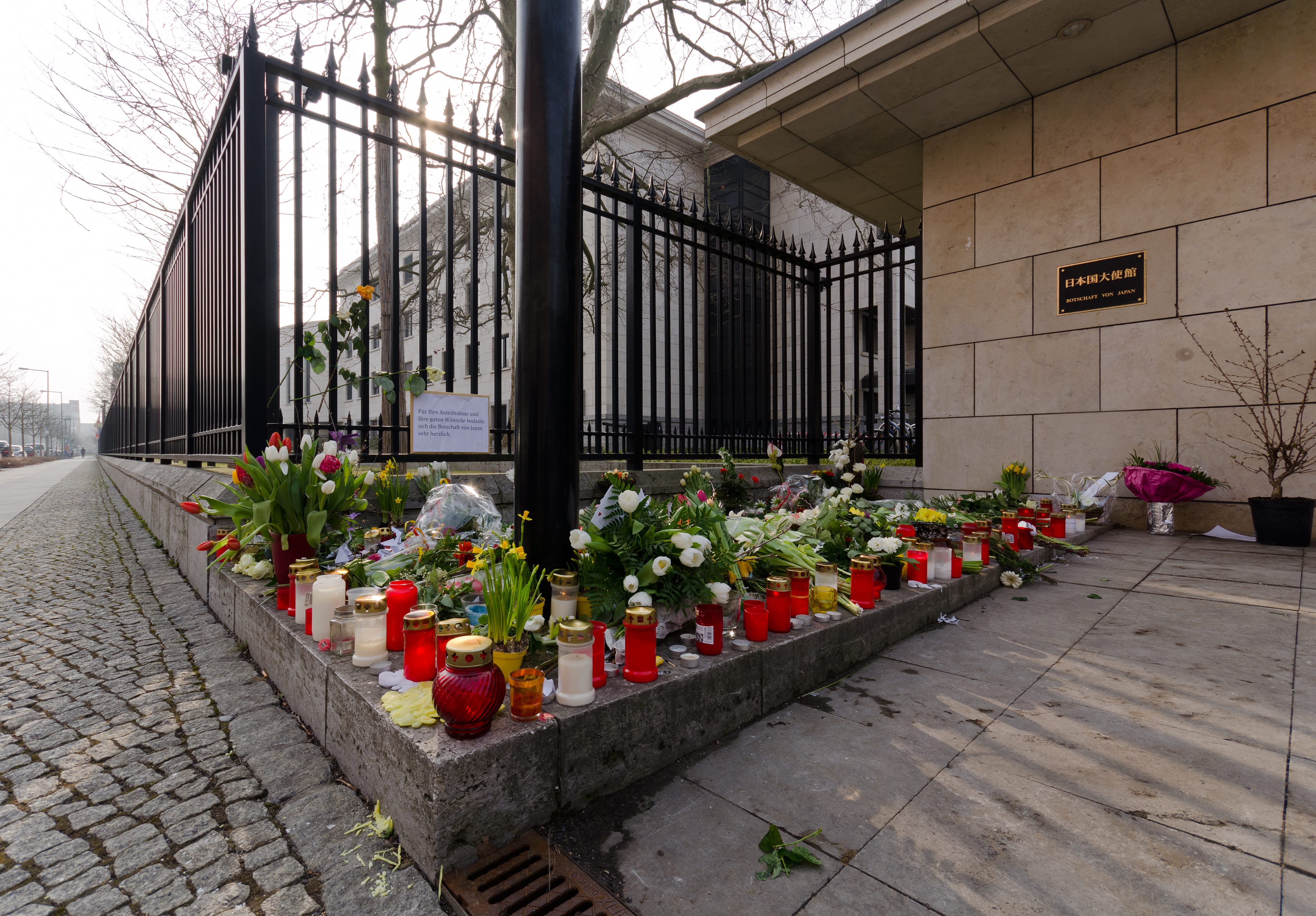 Entrance of the Japanese Embassy in Berlin after the 2011 Tōhoku earthquake and tsunami and the subsequent Fukushima Daiichi nuclear disaster.